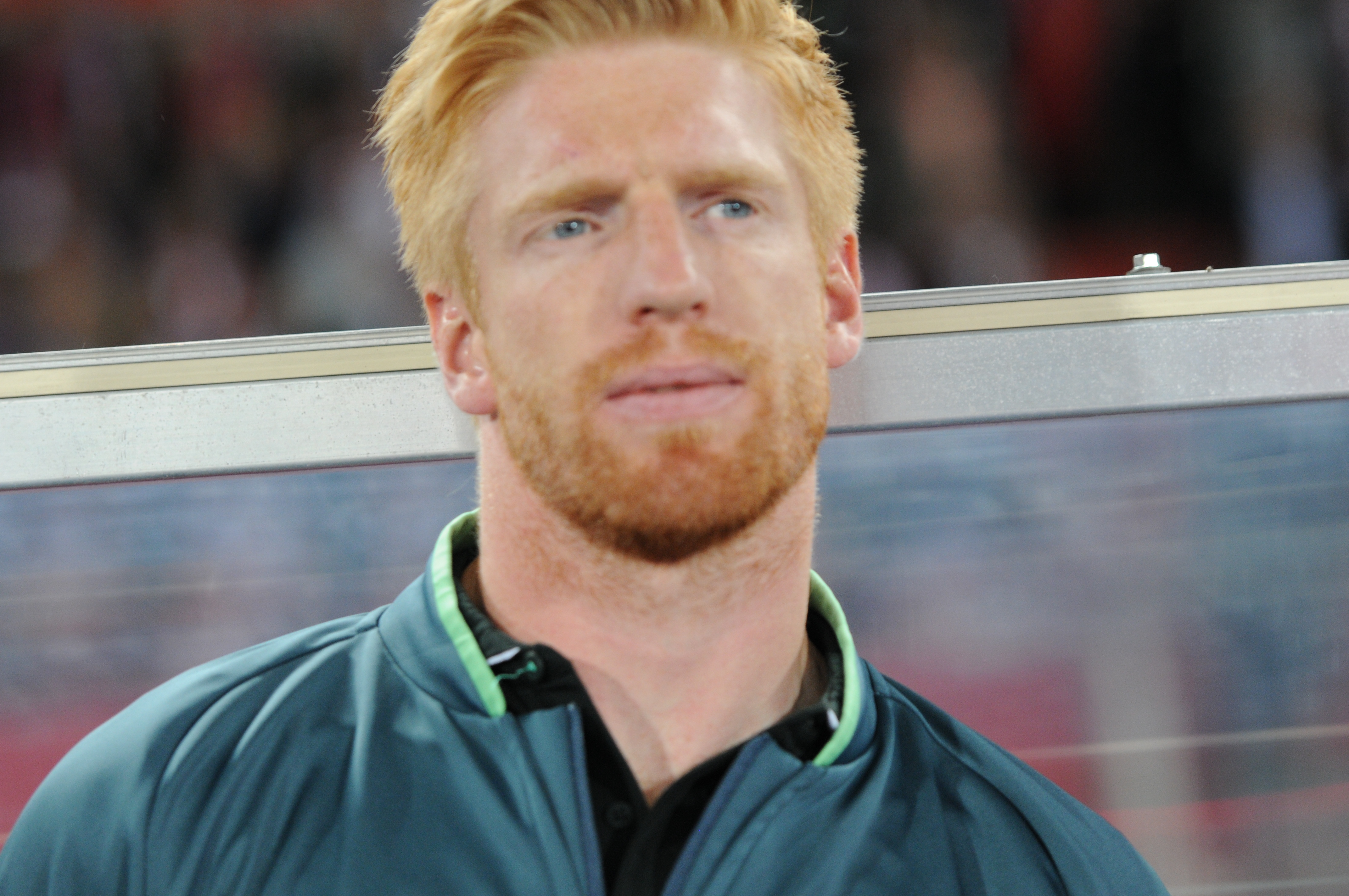 2014 FIFA World Cup qualification (UEFA), Group C: Republic of Ireland national football team at 10. September 2013 before the match against the Austria national football team (0:1) in the Ernst-Happel-Stadion in Vienna. Here:Paul McShane, Irish defender. The making of this work was supported by Wikimedia Austria. For other files made with the support of Wikimedia Austria, please see the category Supported by Wikimedia Österreich.